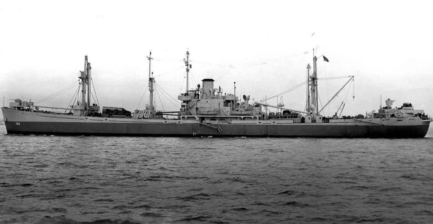 USS Sculptor (AK-103) underway in San Francisco Bay, 13 December 1944. US Navy photo.